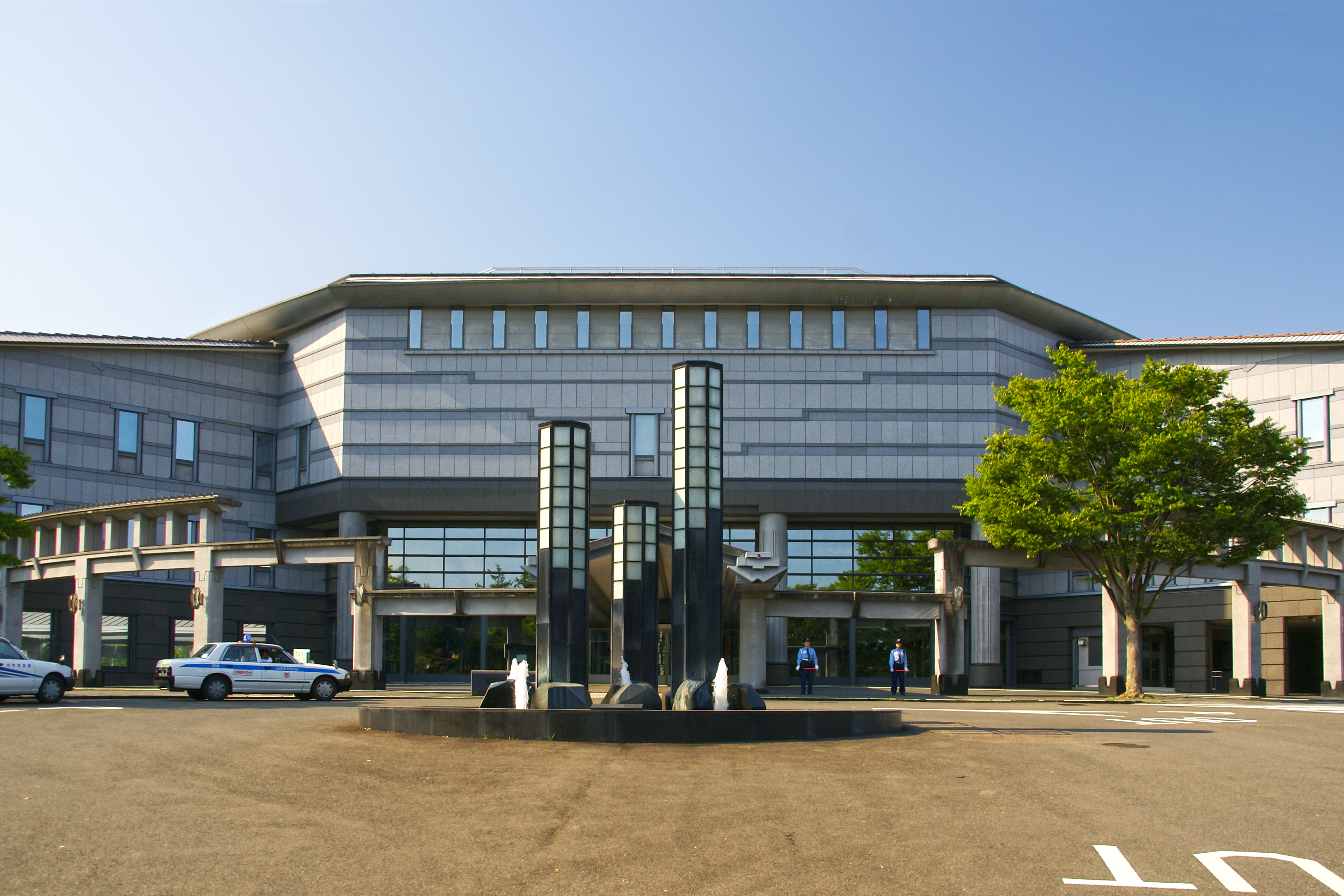 Sendai International Center in Sendai, Miyagi prefecture, Japan